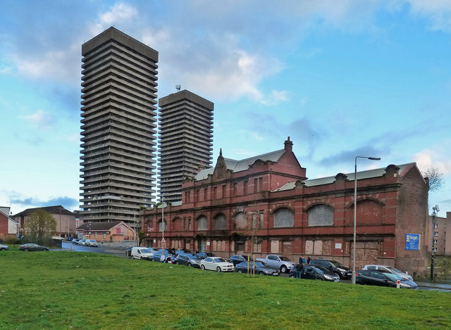 Whitevale Bath